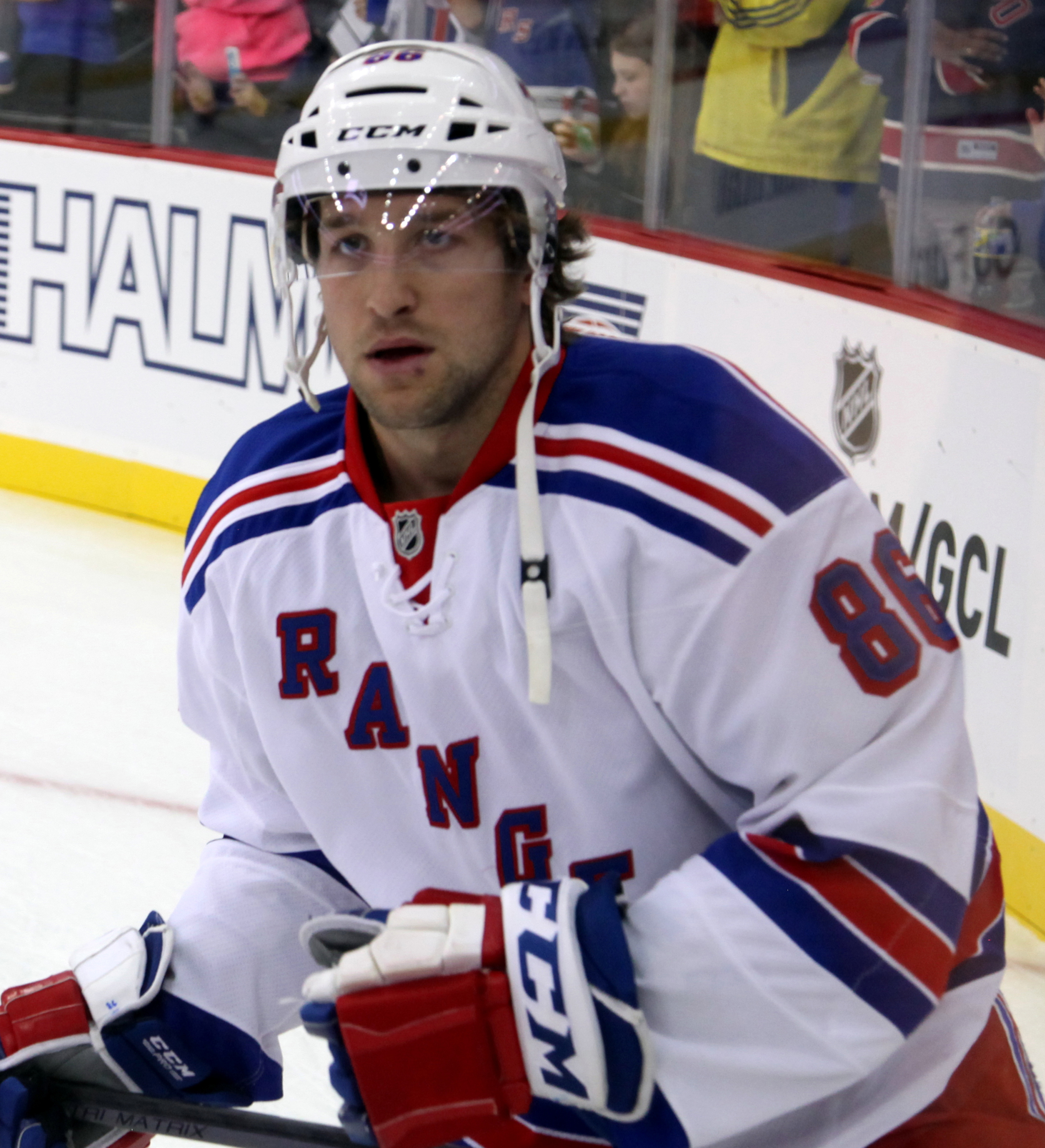 Mueller as a Ranger in October 2014.